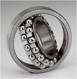 Self-aligning ball bearings have two rows of balls and a common sphered raceway in the outer ring. The bearings are insensitive to angular misalignment of the shaft relative to the housing. This type of ball bearing is recommended when alignment of the shaft and housing is difficult and the shaft may flex. They are designed to work in applications where severe misalignment exists whether from mounting or shaft deflection.It aligns itself correctly with the shaft and assembly without causing undue stress on the rest of the bearing assembly. The outer ring has a spherical raceway and its center of curvature coincides with that of the bearing; therefore, the axis of the inner ring, balls and cage can deflect to some extent around the bearing center. Pressed steel cages are usually used. It generates less friction than any other type of rolling bearing, which enables them to run cooler even at high speeds.